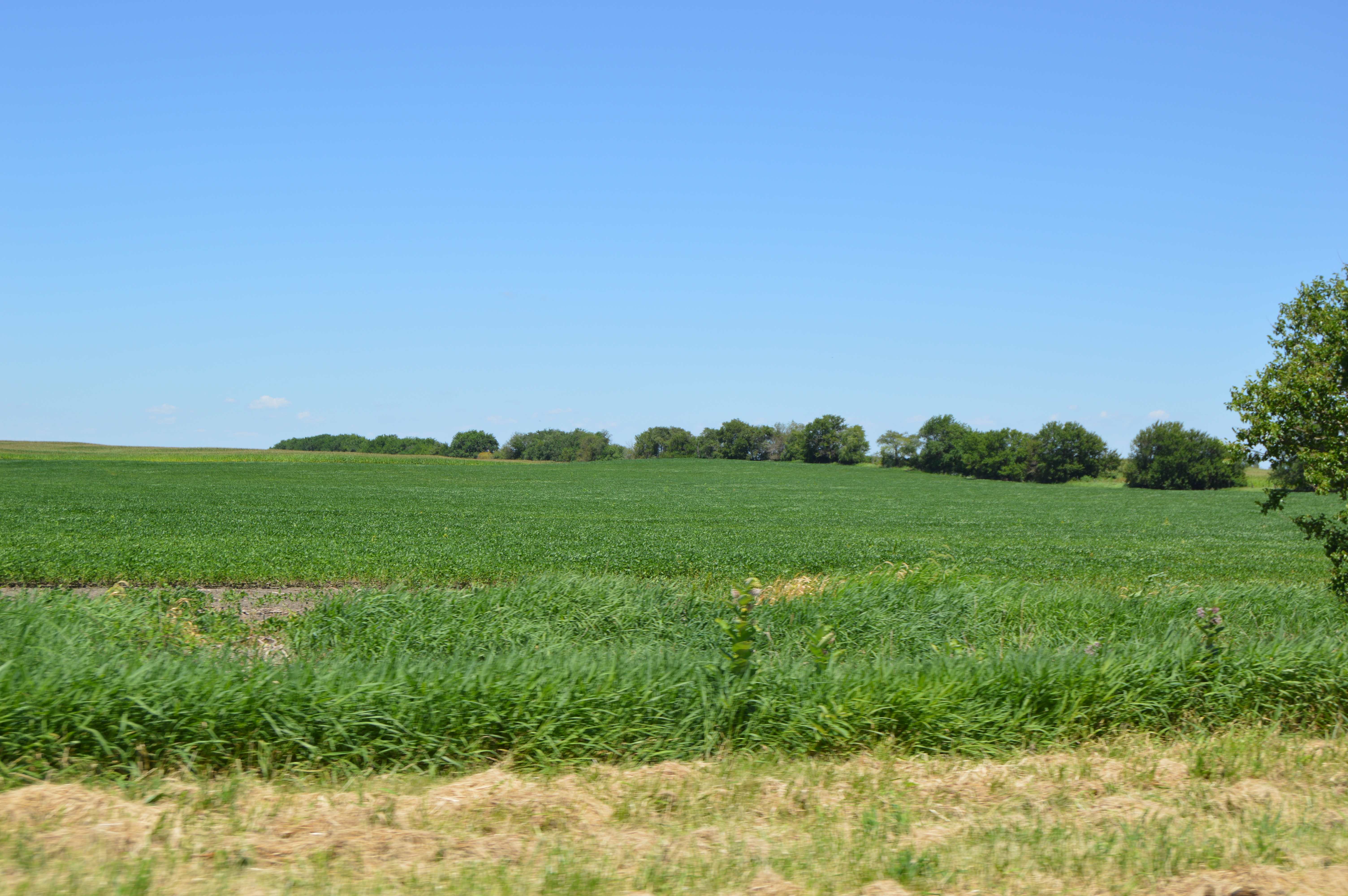 Fields in far southwestern Beaverville Township, Iroquois County, Illinois, United States, looking north from 3000 North west of Beaverville.